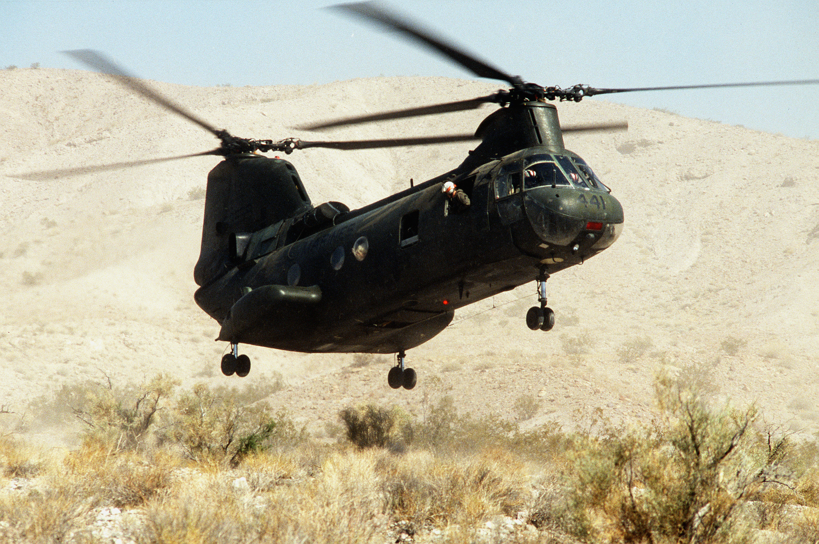 A Marine Medium Helicopter Squadron 164 (HMM-164) CH-46E Sea Knight helicopter lands in the desert during exercise Gallant Eagle '86. Location: EDWARDS AIR FORCE BASE, CALIFORNIA (CA) UNITED STATES OF AMERICA (USA)